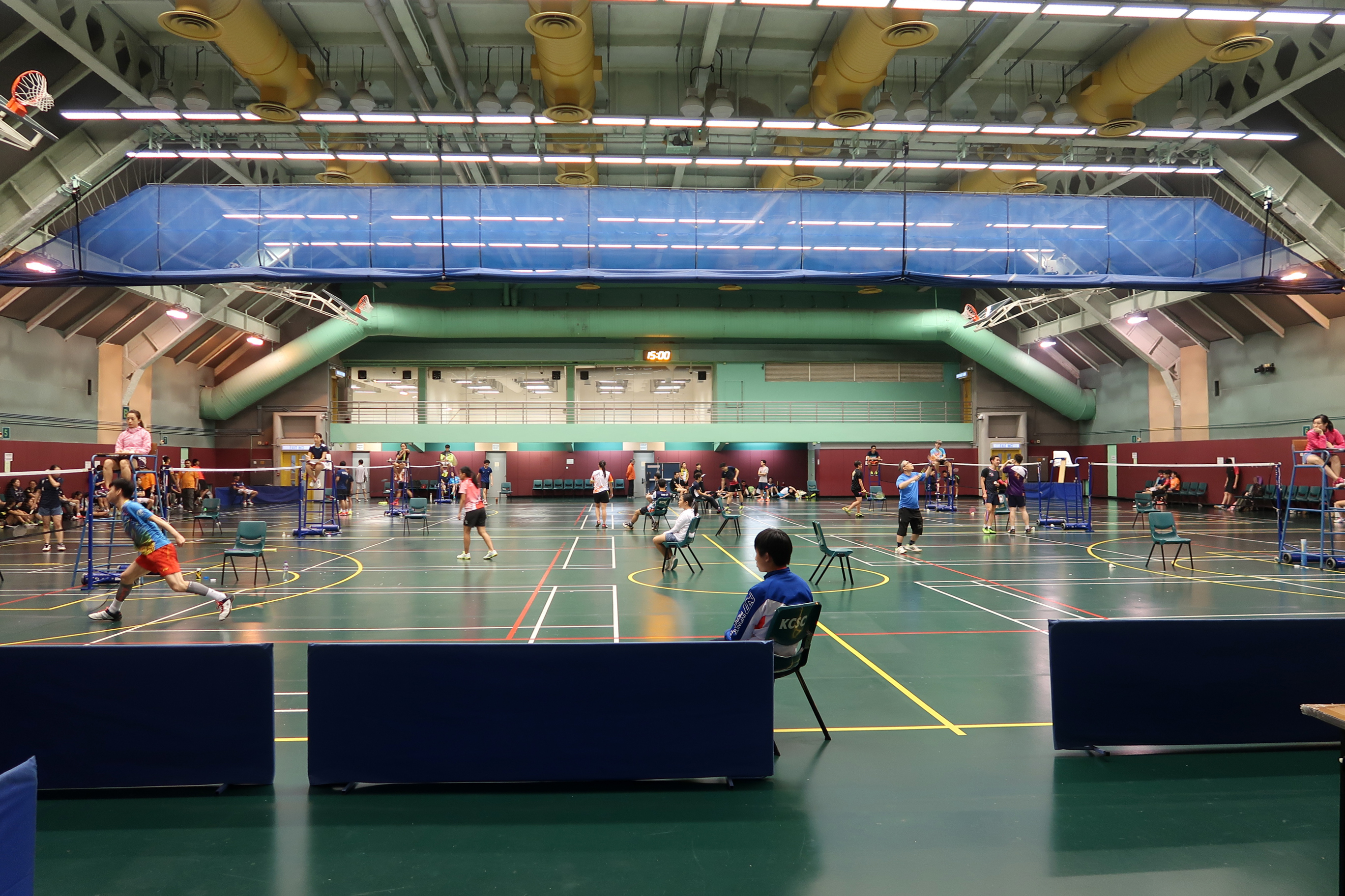 Kowloon City Municipal Services Building